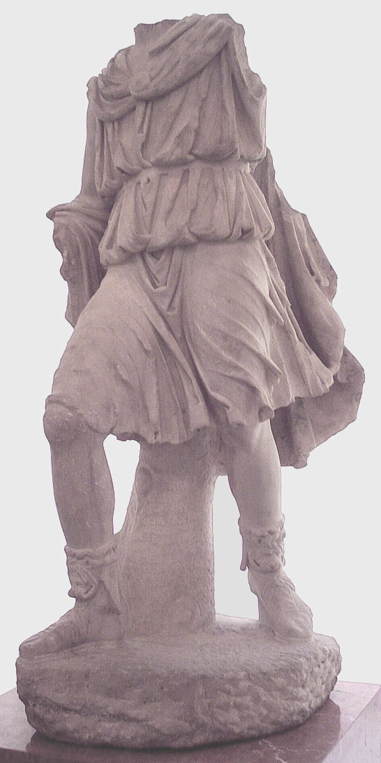 Roman statue of Ascanius from Emerita Augusta (present-day Mérida, Badajoz, Spain).